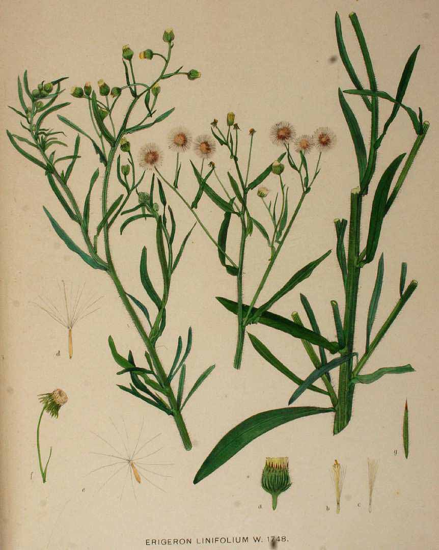 Plate depicting Erigeron bonariensis L. - Flora Batava, vol. 22: t. 1748 (1906)